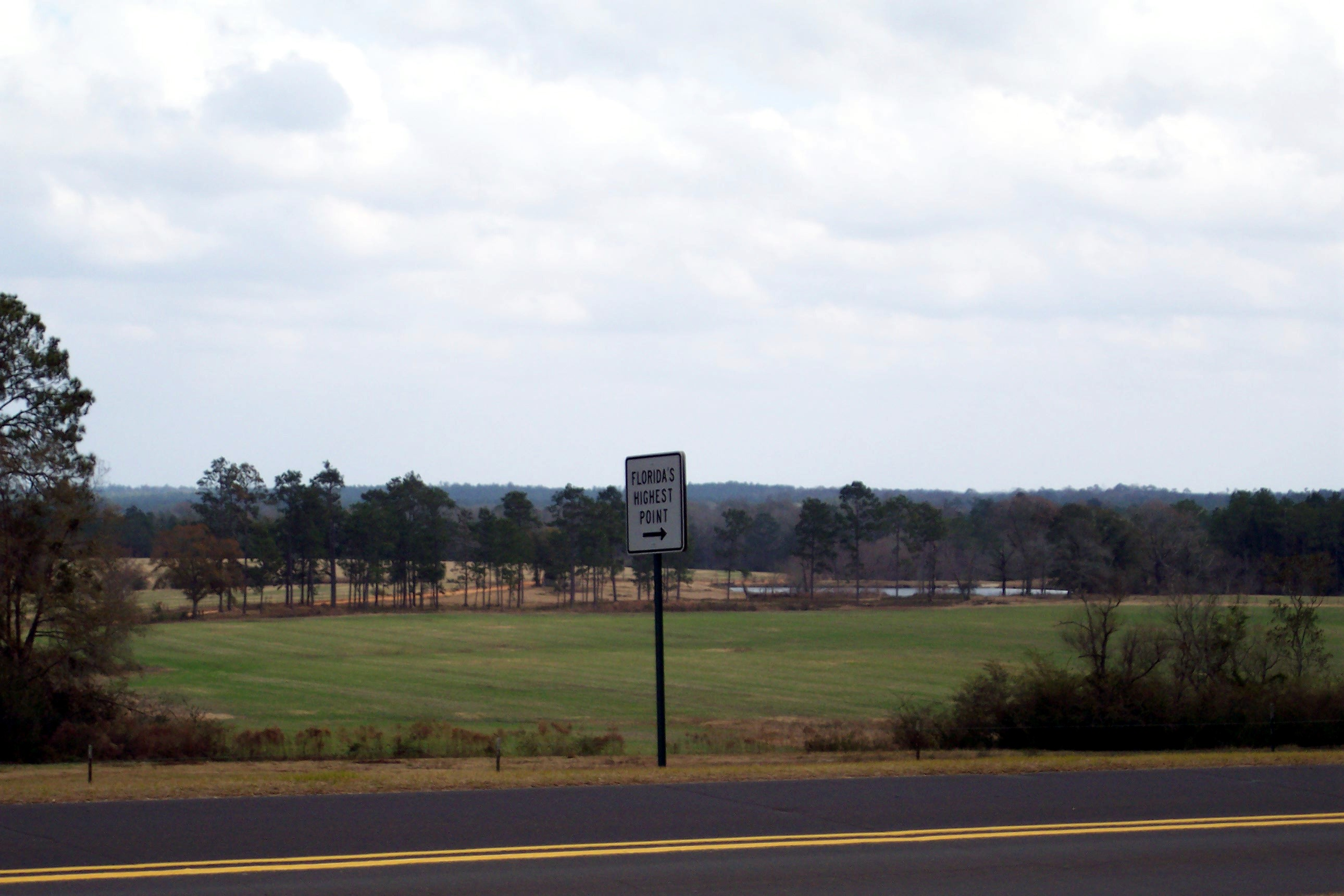 Britton Hill, Walton County, Florida, USA